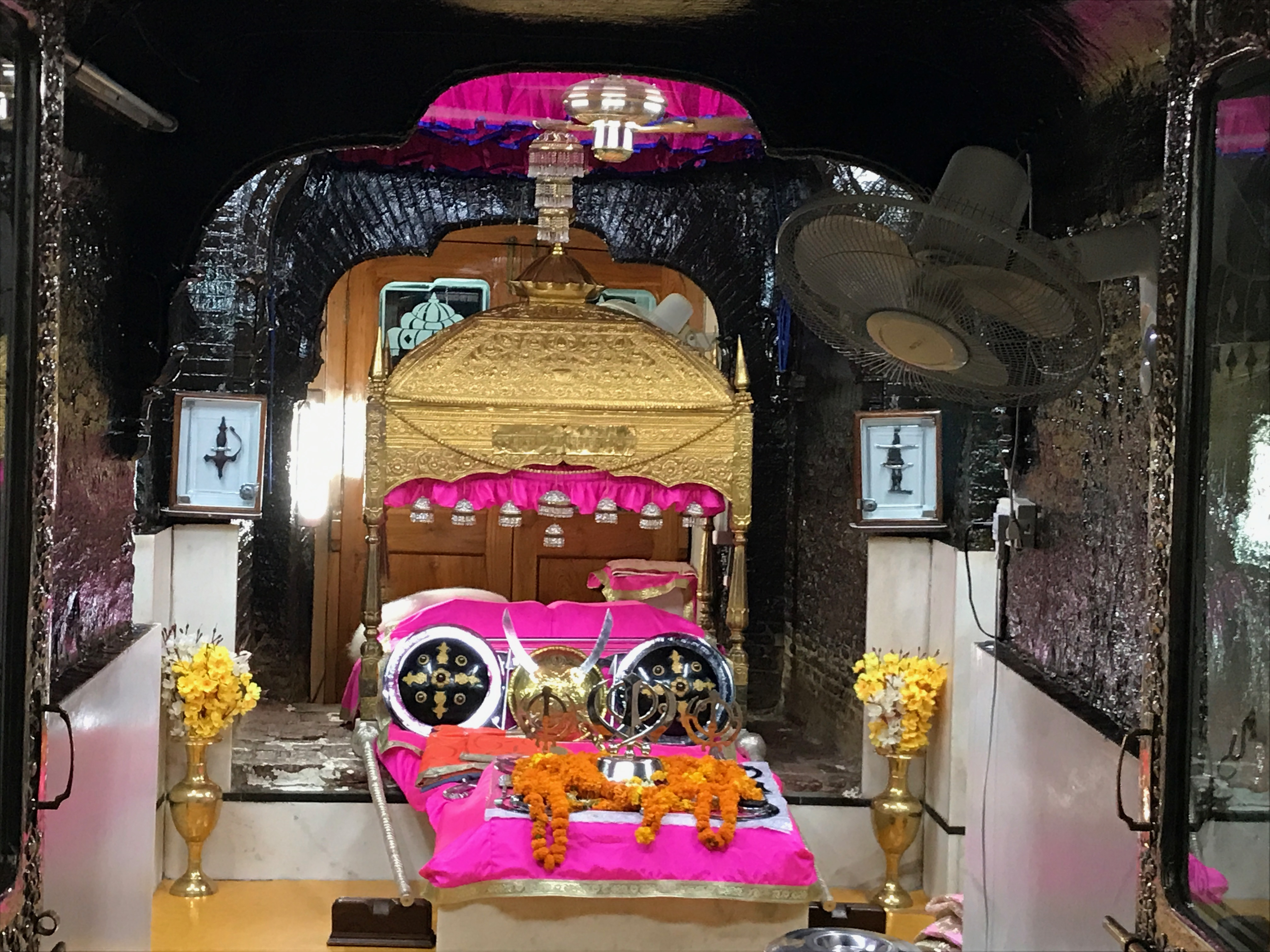 Fatehgarh Sahib is an important historic site of Sikhs. A major Gurdwara marks the place where two sons of Guru Gobind Singh who were bricked alive in 1704 by the Mughal Empire commander Wazir Khan, with the orders of Aurangzeb. The historical wall in which the young sons of Guru Gobind Singh were bricked alive is preserved in the basement of this Gurudwara. It is called Gurudwara Bhora Sahib. Fateh Singh and Zorawar Singh, sons of Guru Gobind Singh were martyred here.